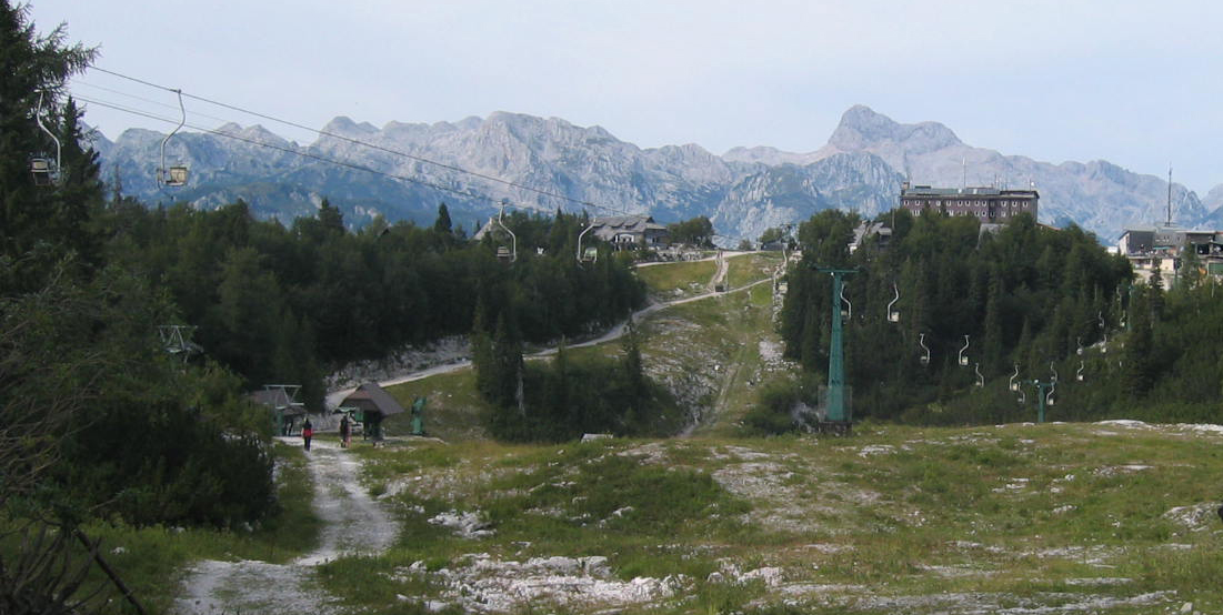 Vogel, ski resort in Julian Alps, Slovenia (summer) photo:Ziga 19:18, 29 December 2006 (UTC)